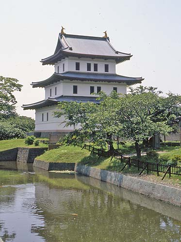 Matsumae Castle in Matsumae, Hokkaidō, Japan. I ((User:Fg2) took this photograph and contribute it to the public domain.